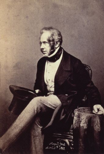 Henry John Temple, 3rd Viscount Palmerston (1784-1865)